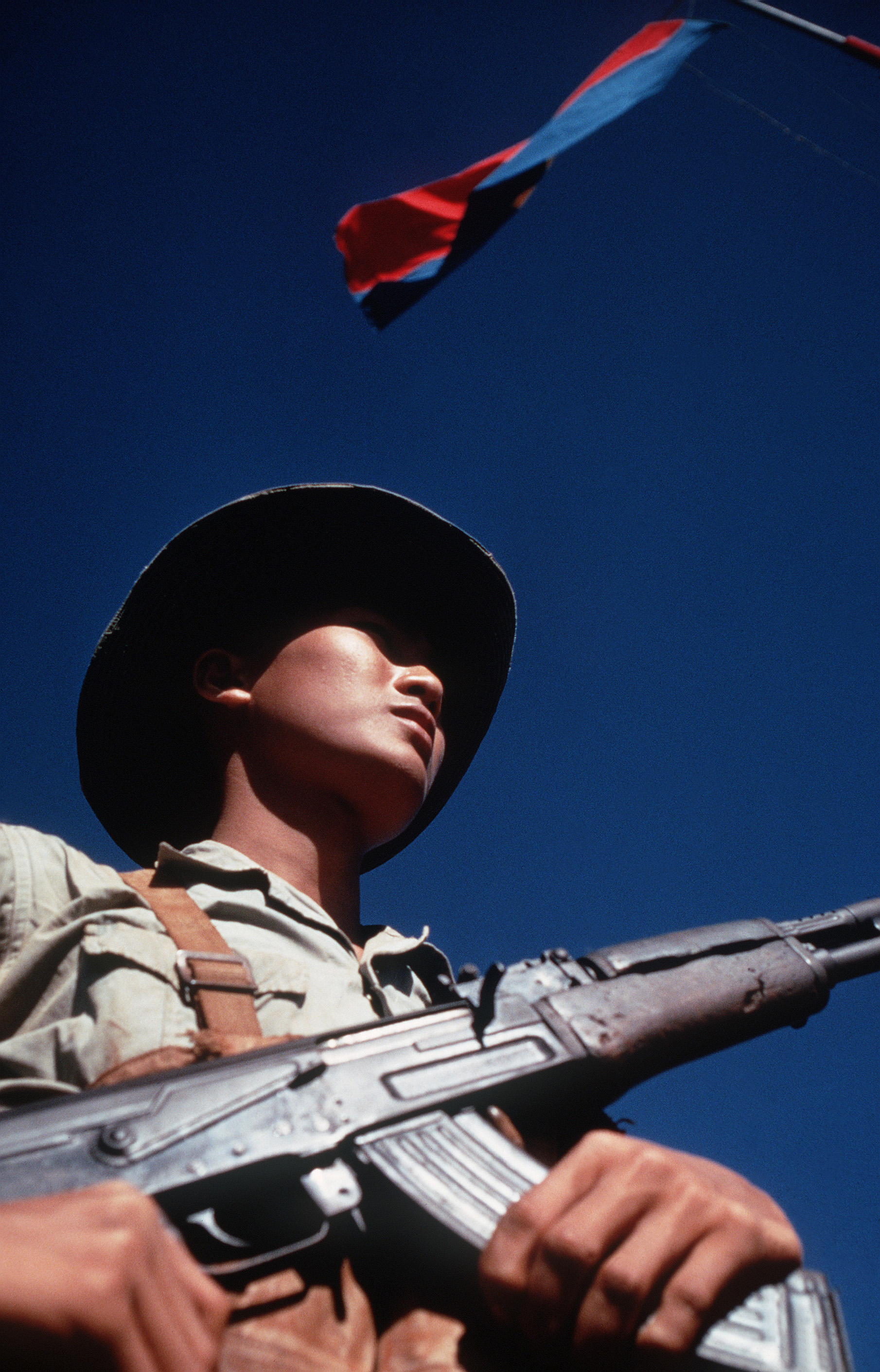 Viet Cong soldier stands beneath a Viet Cong flag carrying his AK-47 rifle. He was participating in the exchange of POWs by the Four Power Joint Military Commission.